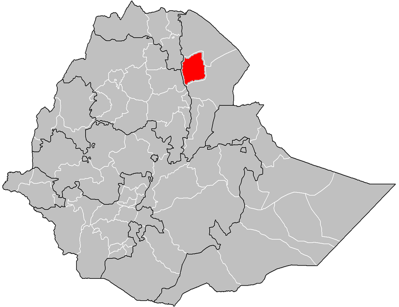 Ethiopia zones map with Afar Zone 4 enlighted.